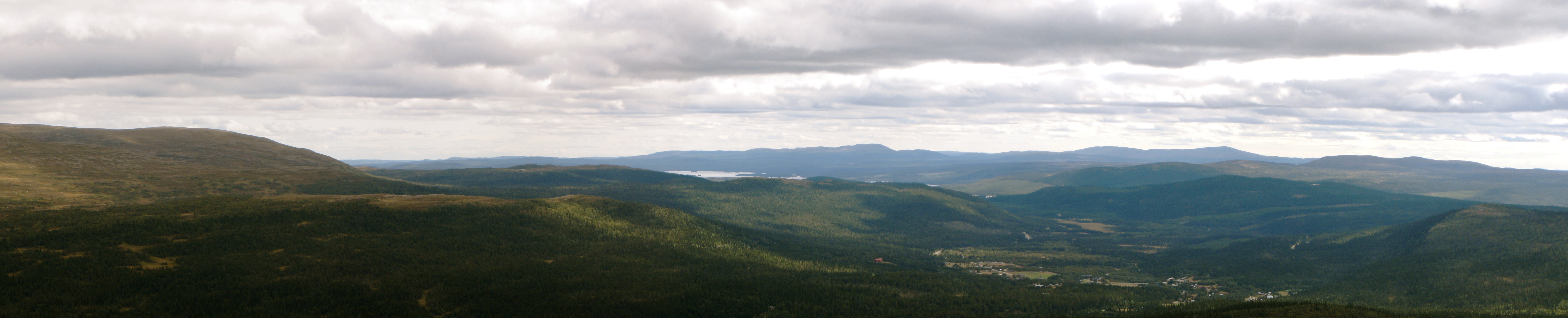 Ljungdalen